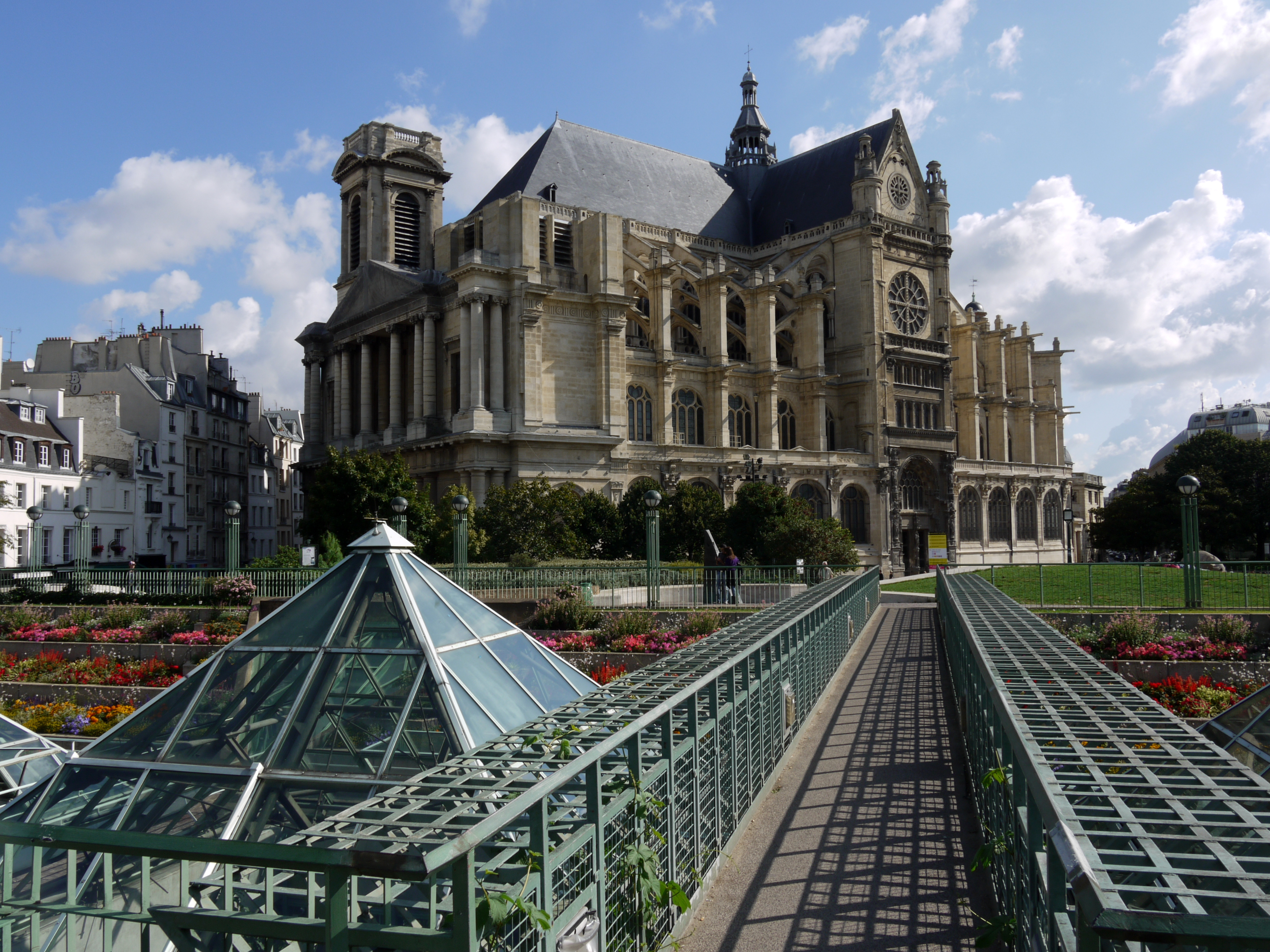 Church of Saint Eustache and Jardin des Halles, Paris